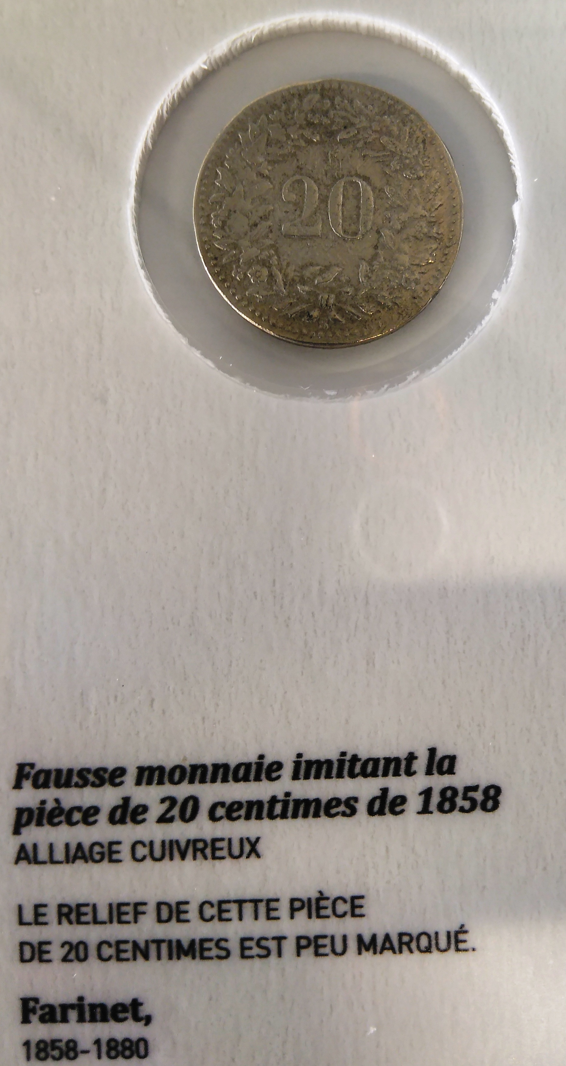 20 Centimes Swiss Coin 1858 Fake coin from Farinet at the Musée monétaire cantonal de Lausanne